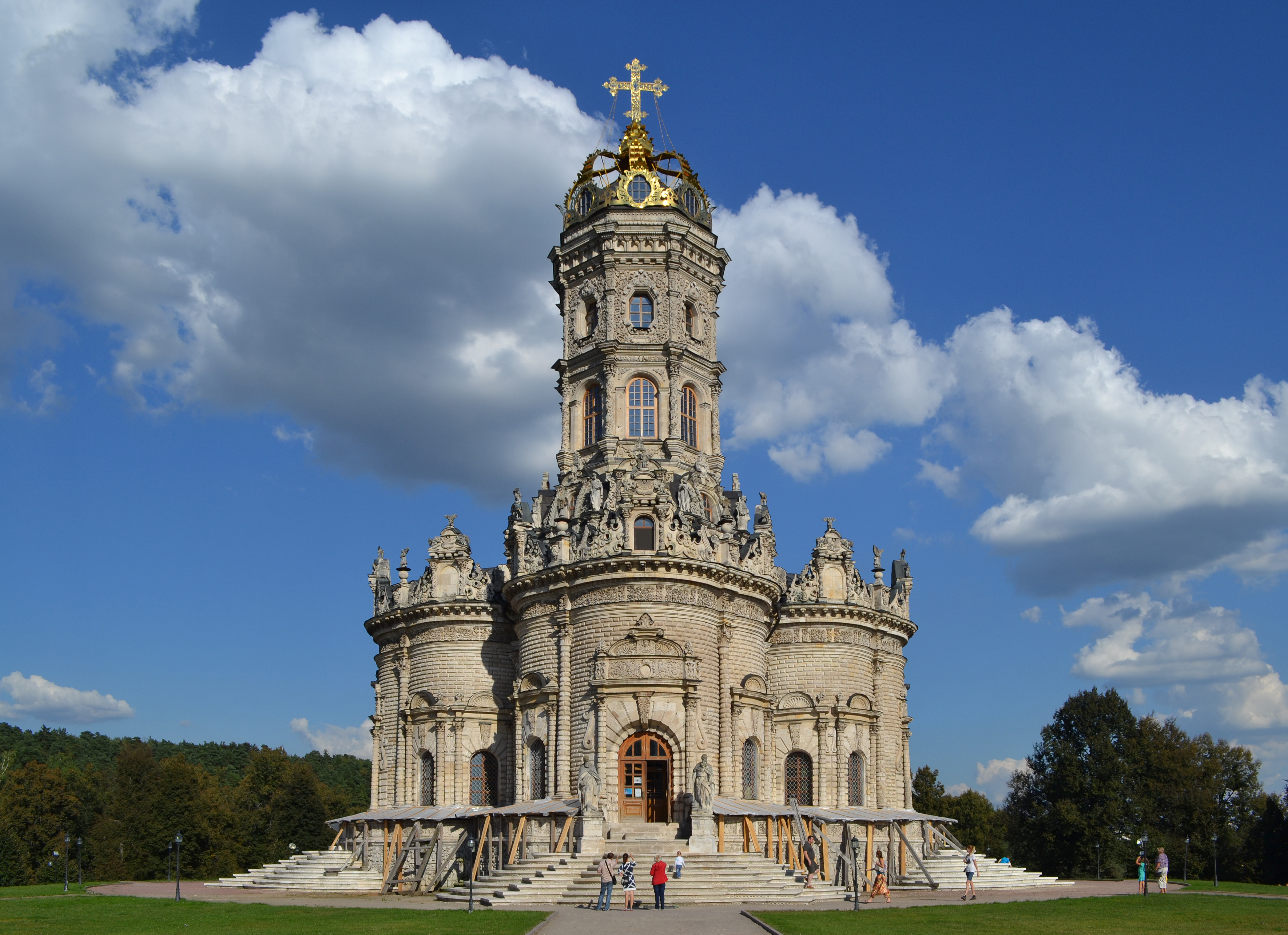 The baroque church of Our Lady of the Sign in Dubrovitsy Estate to the South of Moscow, Russia